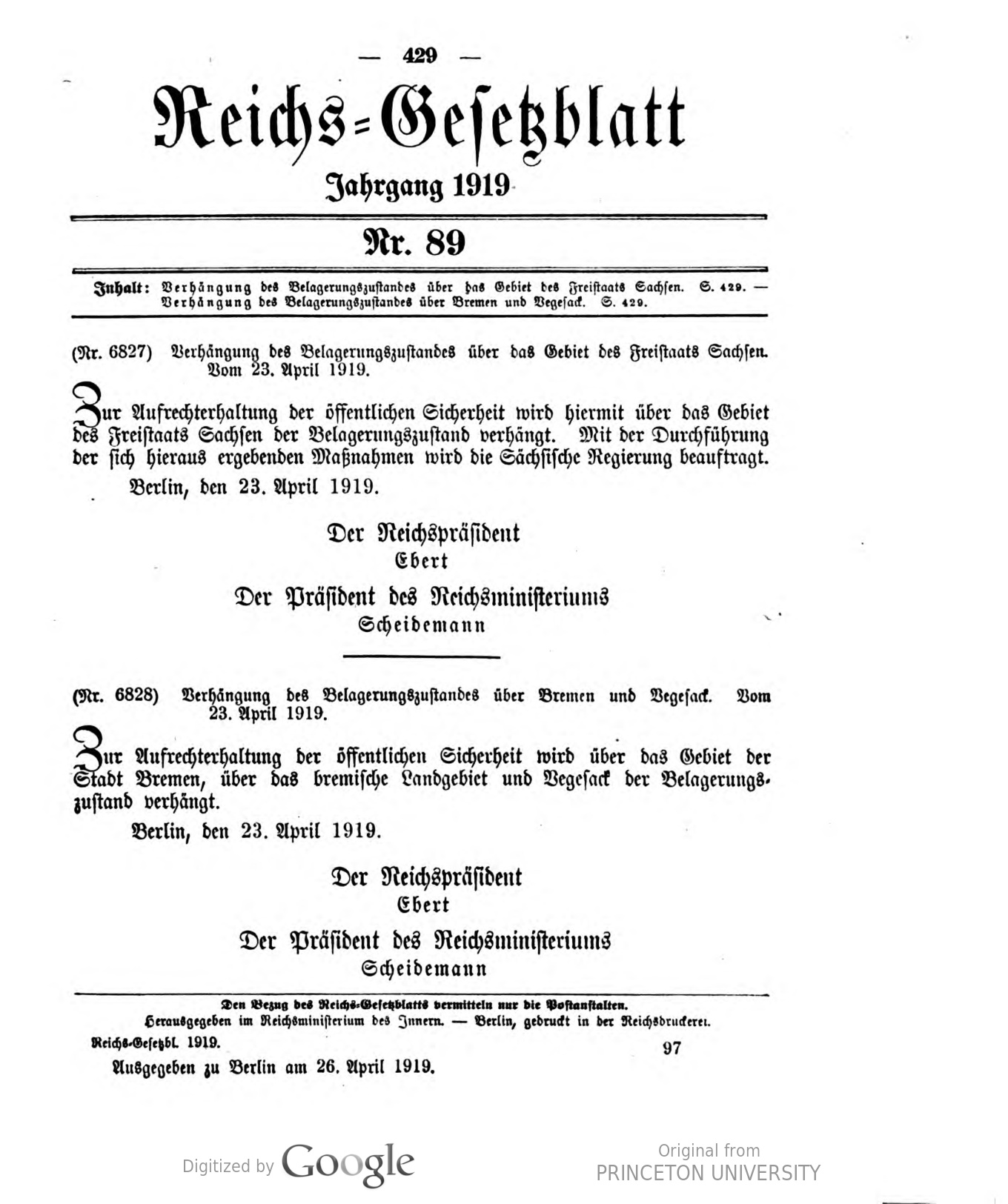 Scan from the Imperial Law Gazette of Germany, 1919